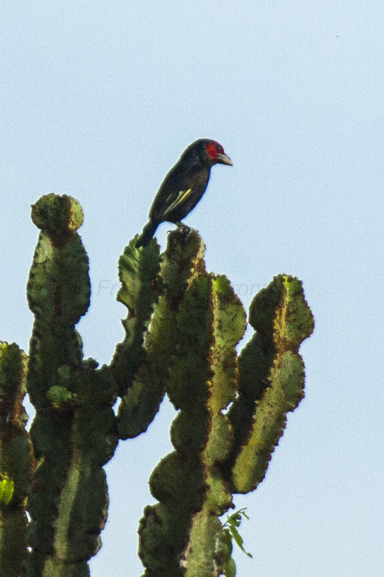 Red-faced Barbet - Uganda_H8O2756